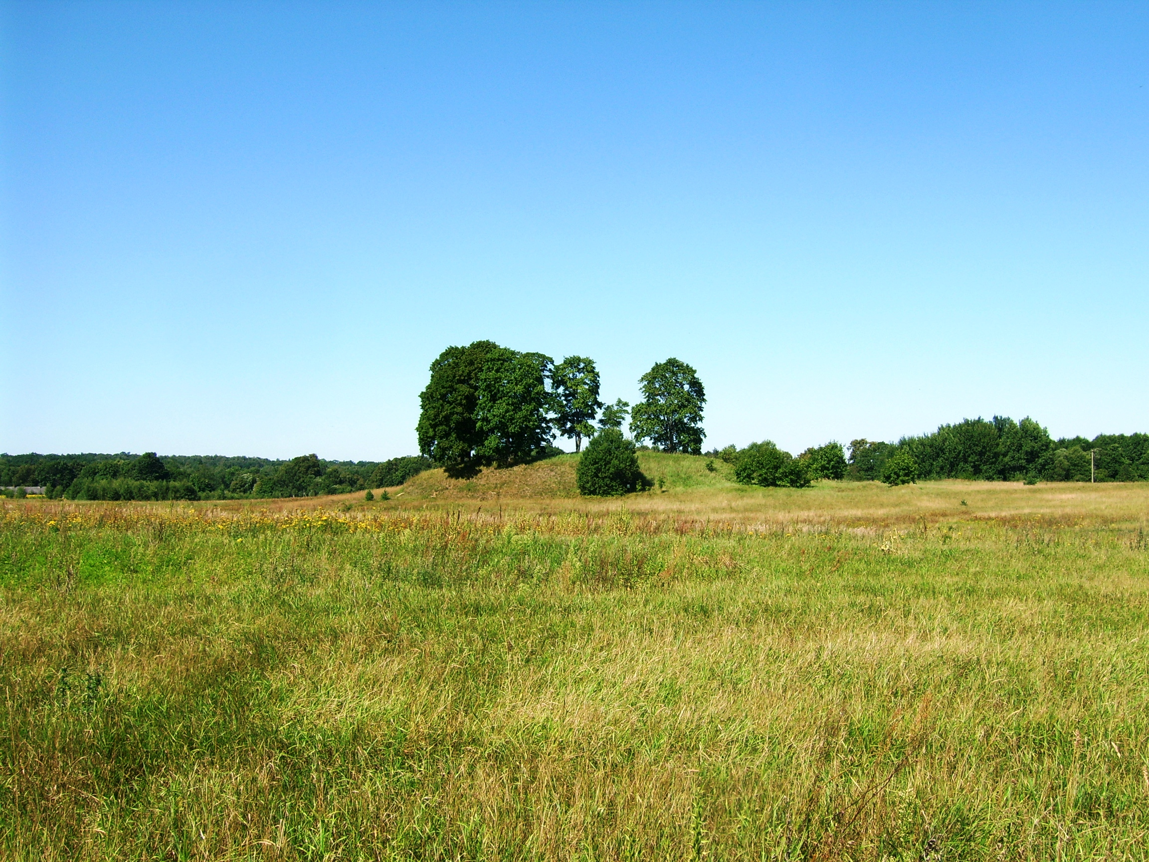 Hill in Sereitlaukis